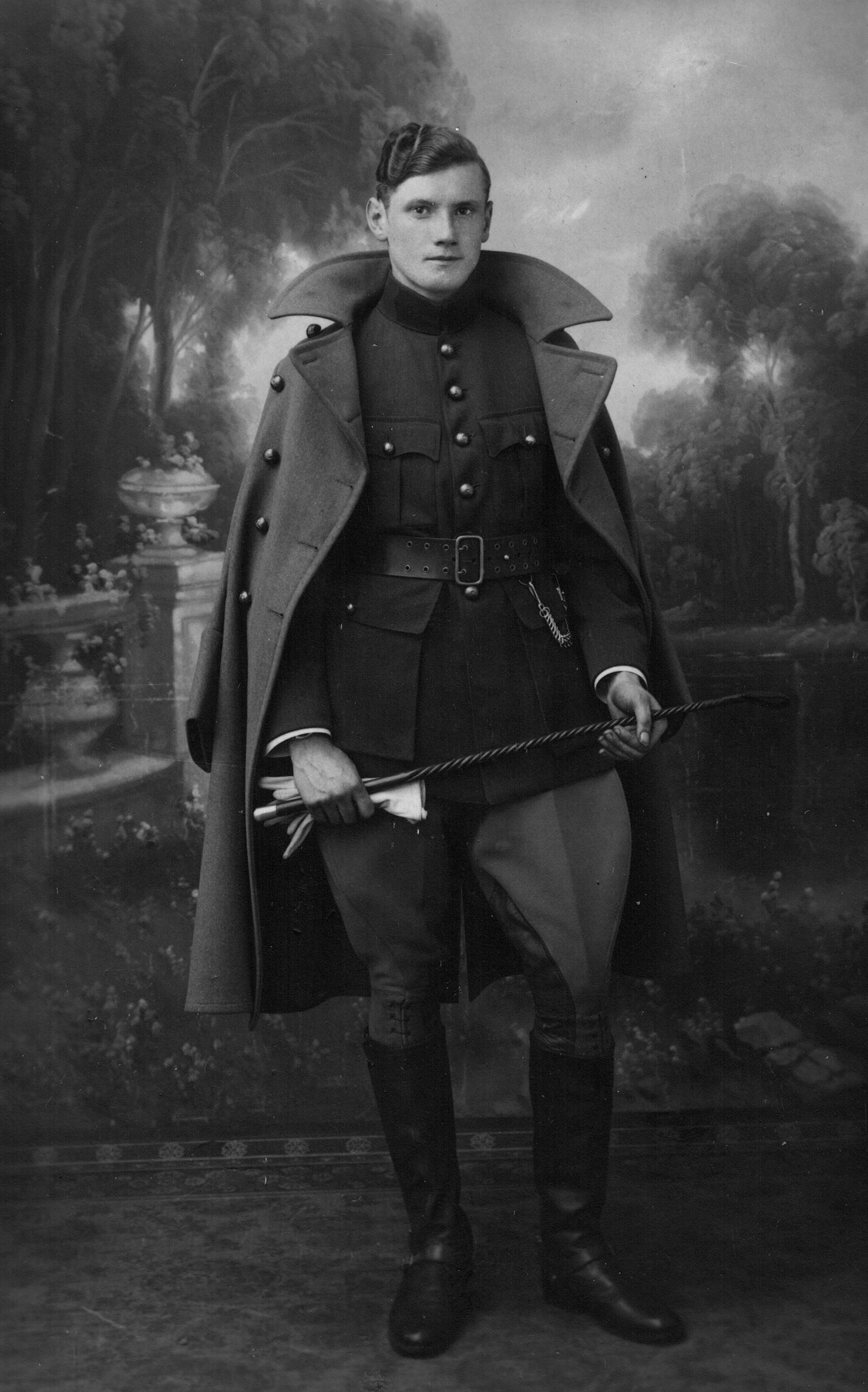 1931 Henri André Hillewaert military service first artillery